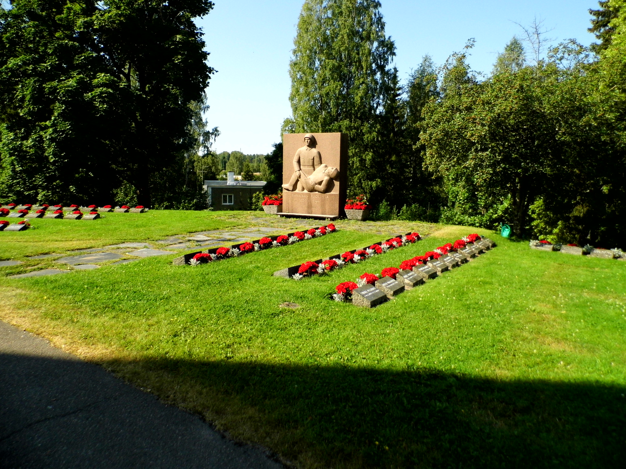 Military cemetary at church in Savitaipale, Finland